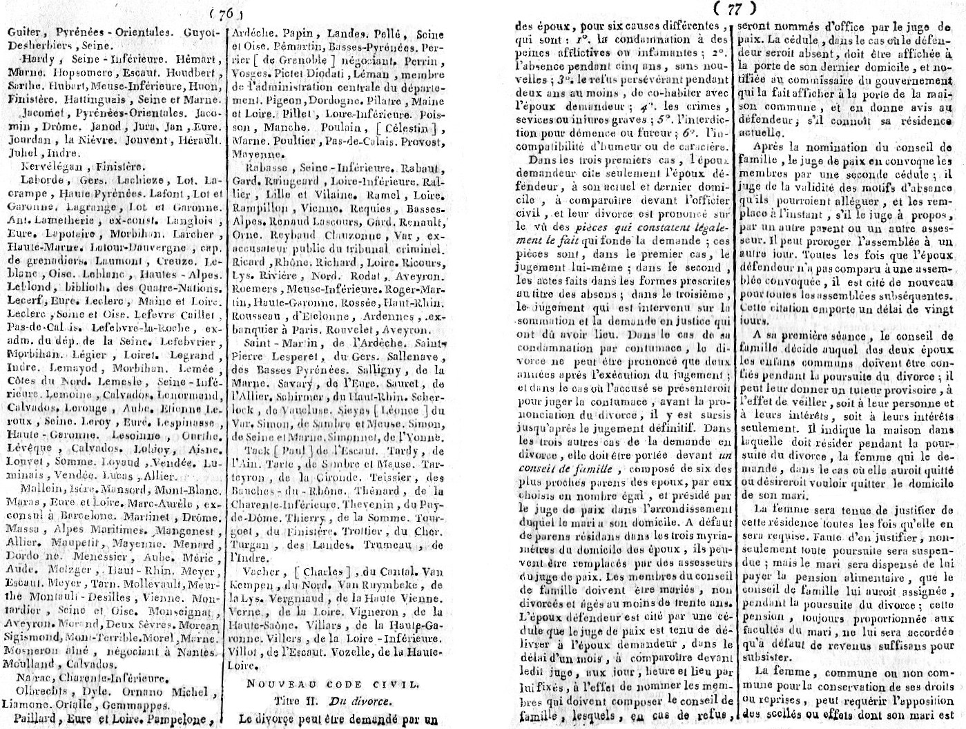 Nr 100 of the "Journal de Bruxelles" during the French revolutionary republic occupation of Brussels in 1799. The French republican date is: Décadi 10 Nivose an VIII (Tuesday 31 December 1799). This journal contains many dispatches with news all over Europe. Page 76 and 77. The publication of the civil divorce laws.